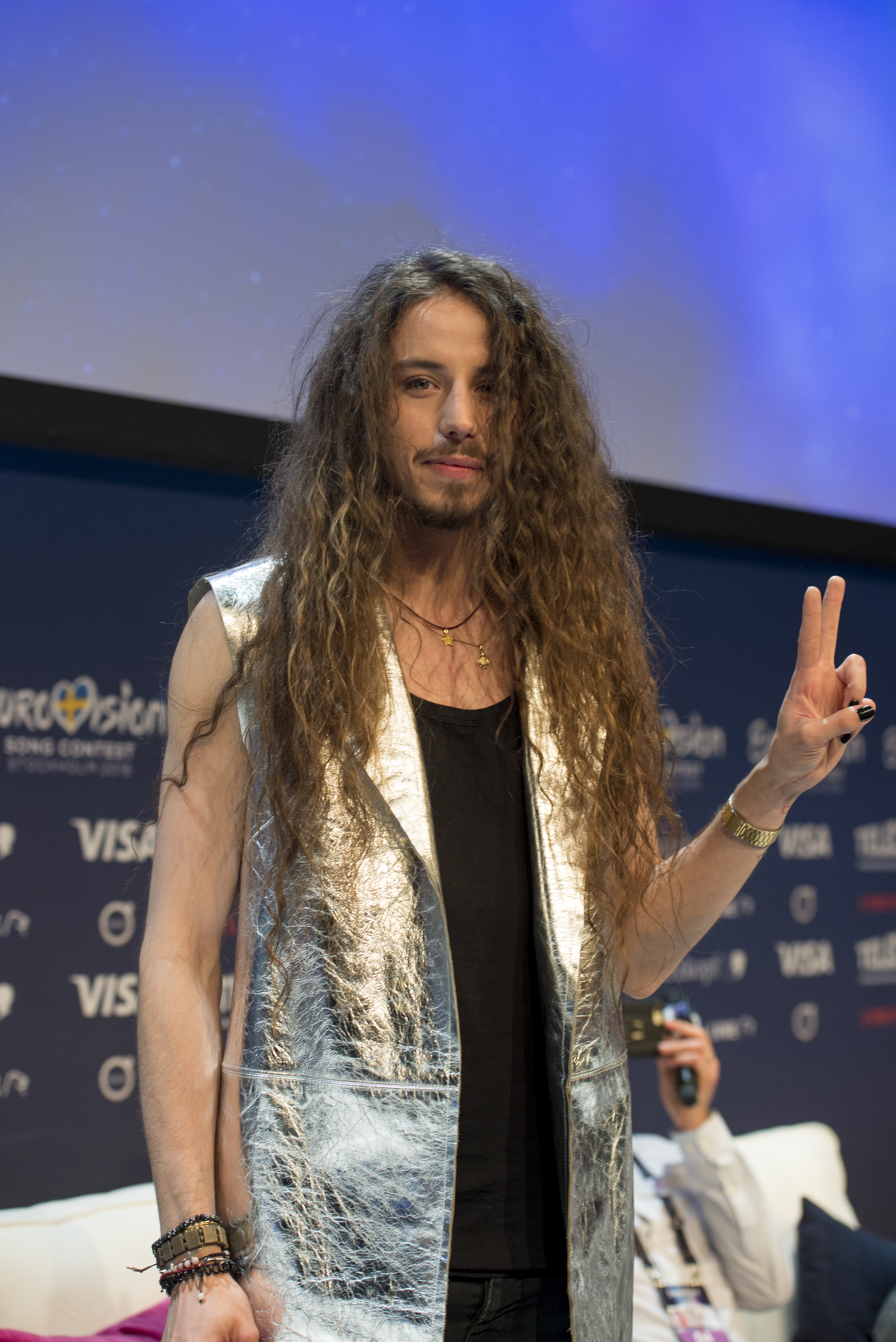 Michał Szpak at a Meet & Greet during the Eurovision Song Contest 2016 in Stockholm. (Help translate this text)